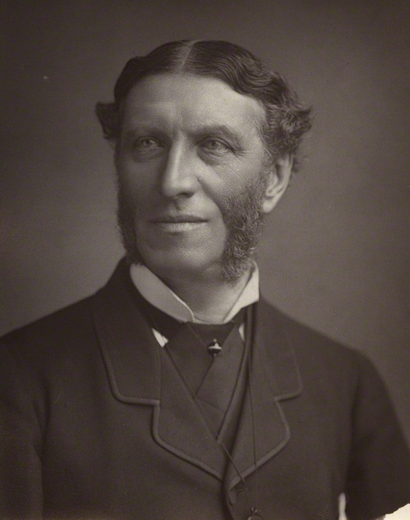 Matthew Arnold, by Elliott & Fry, published by Bickers & Son, woodbury type, circa 1883; published 1886.